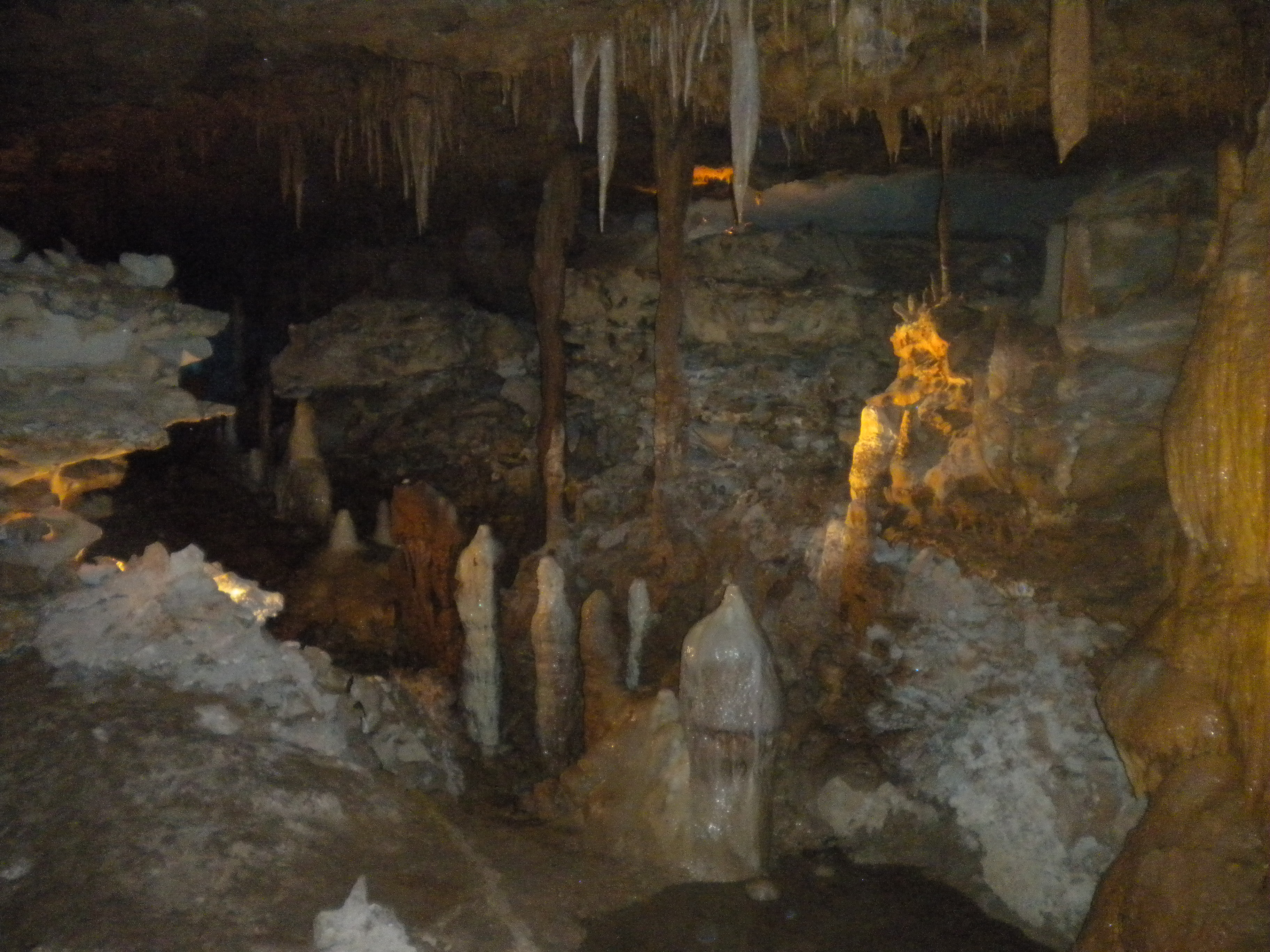 Limestone formations found in Inner Space Cavern — in Georgetown, Texas Hill Country, Central Texas, United States.